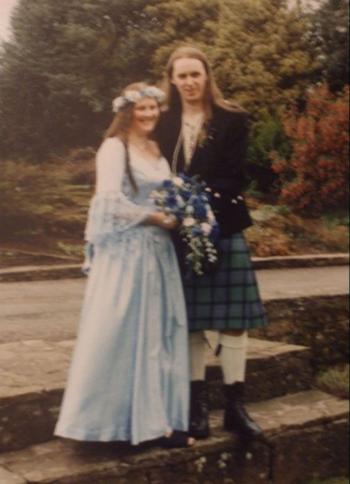 alba scottish civil ceremony